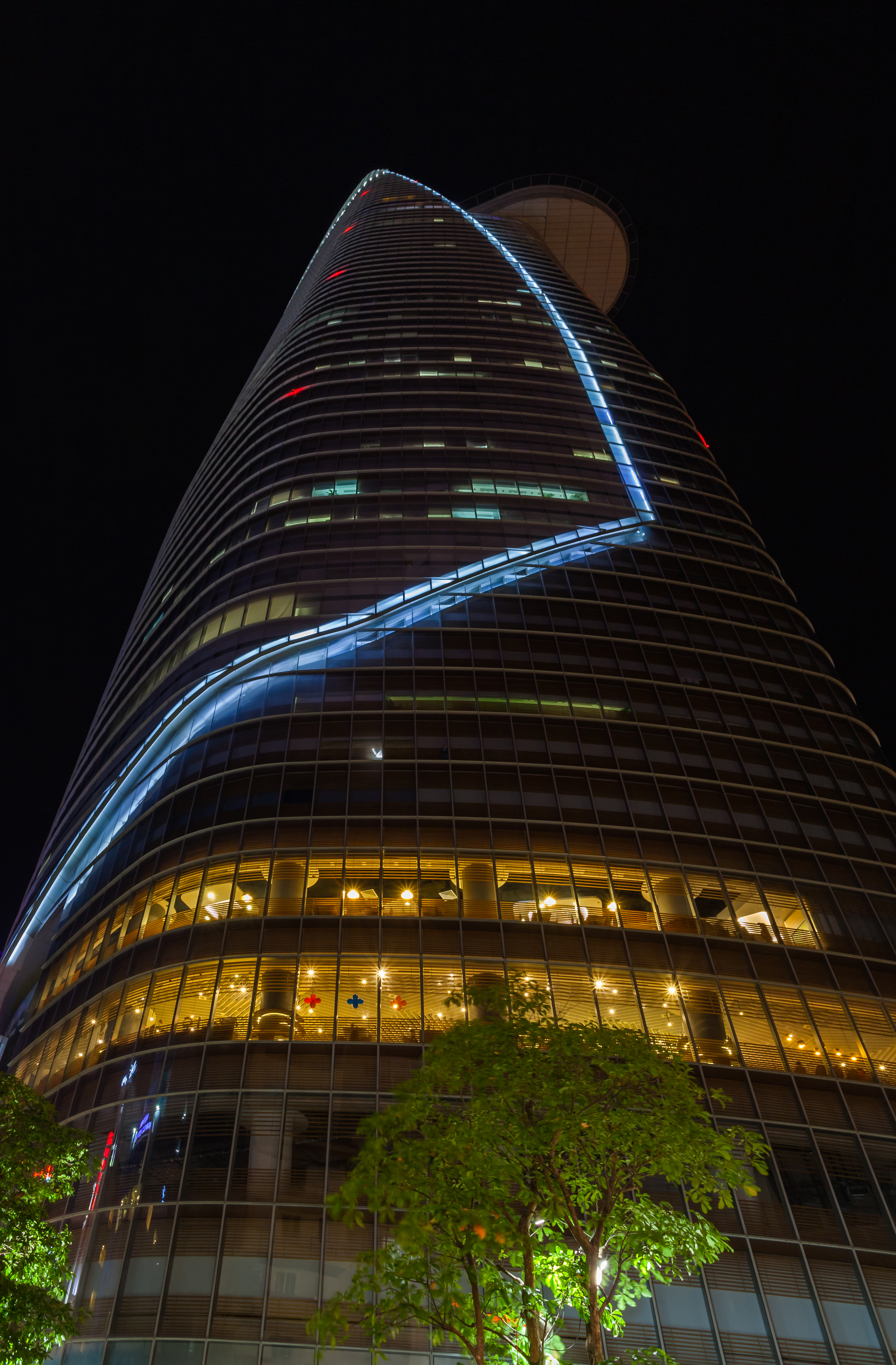 Bitexco Financial Tower, Ho Chi Minh City, VietnamTiếng Việt: Toà nhà Bitexco, Thành phố Hồ Chí Minh, Việt Nam.